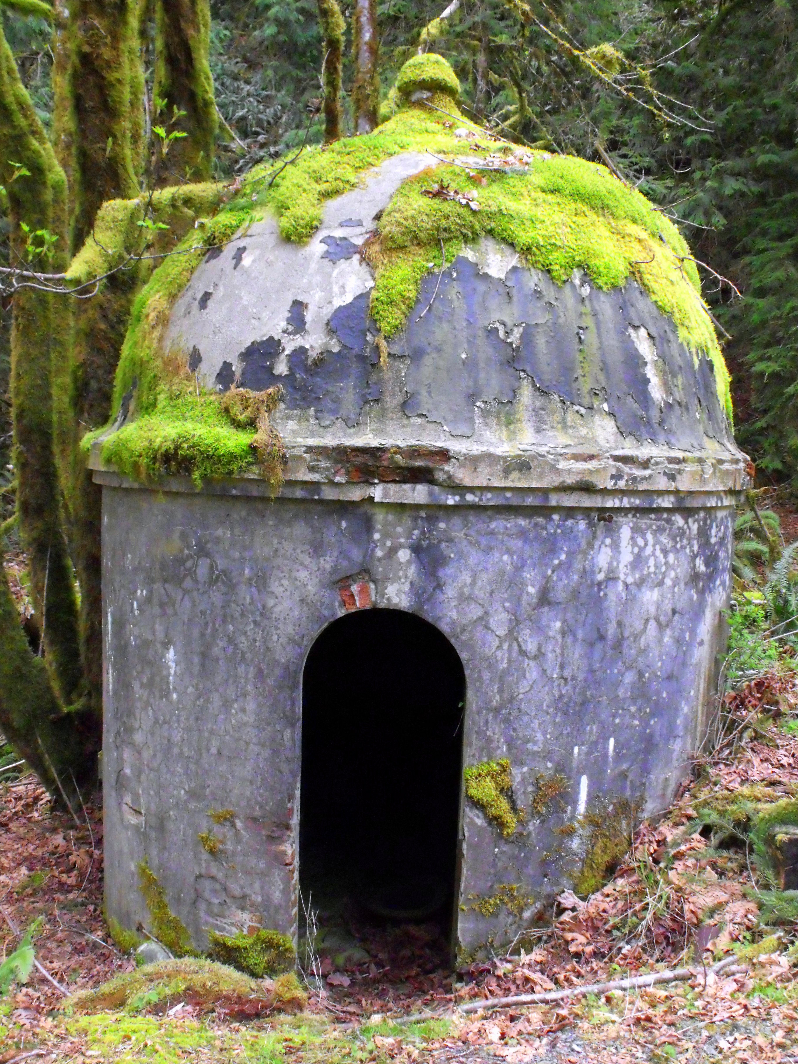 Generating station